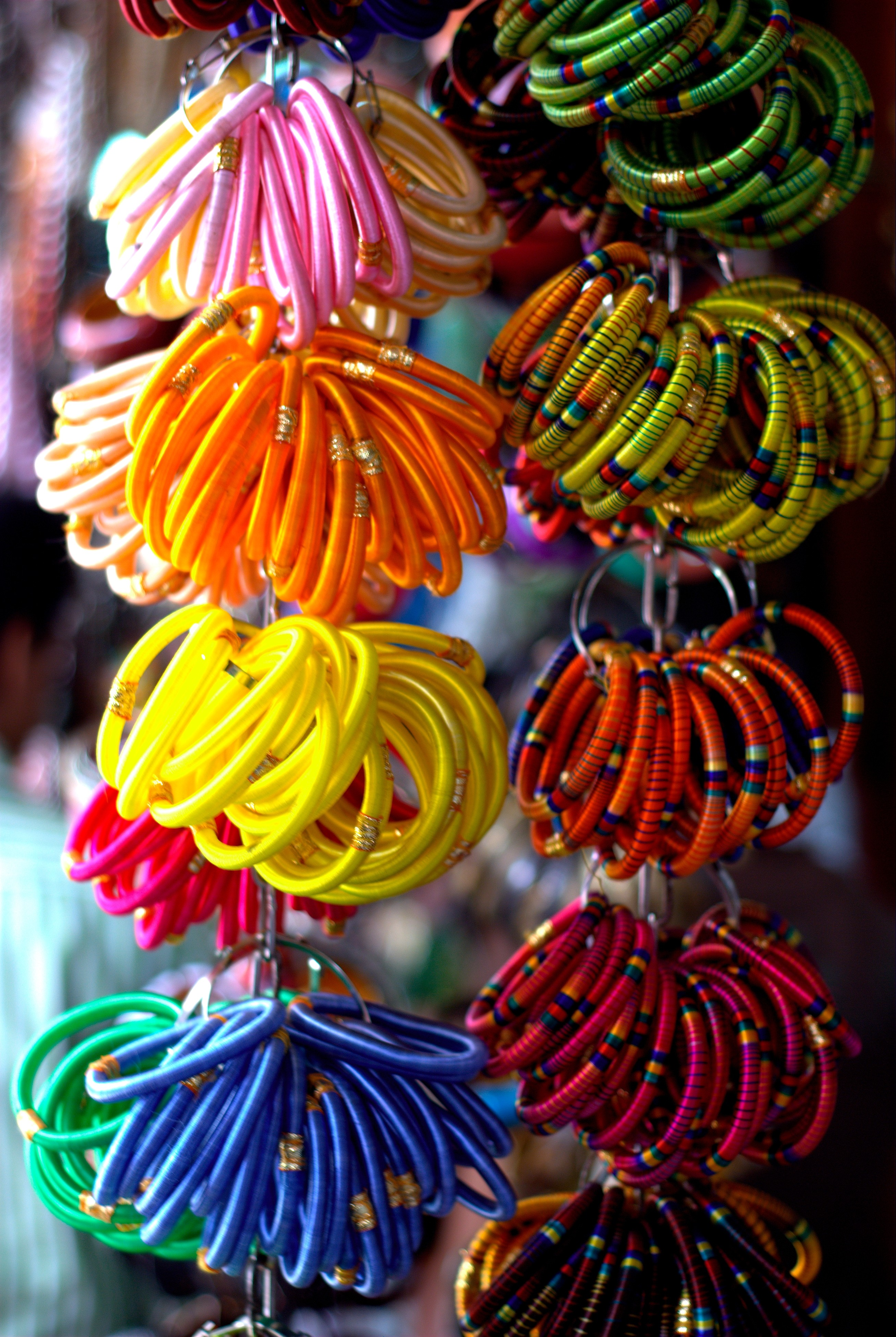 Colourful bangles at a shop, Colaba, Mumbai.